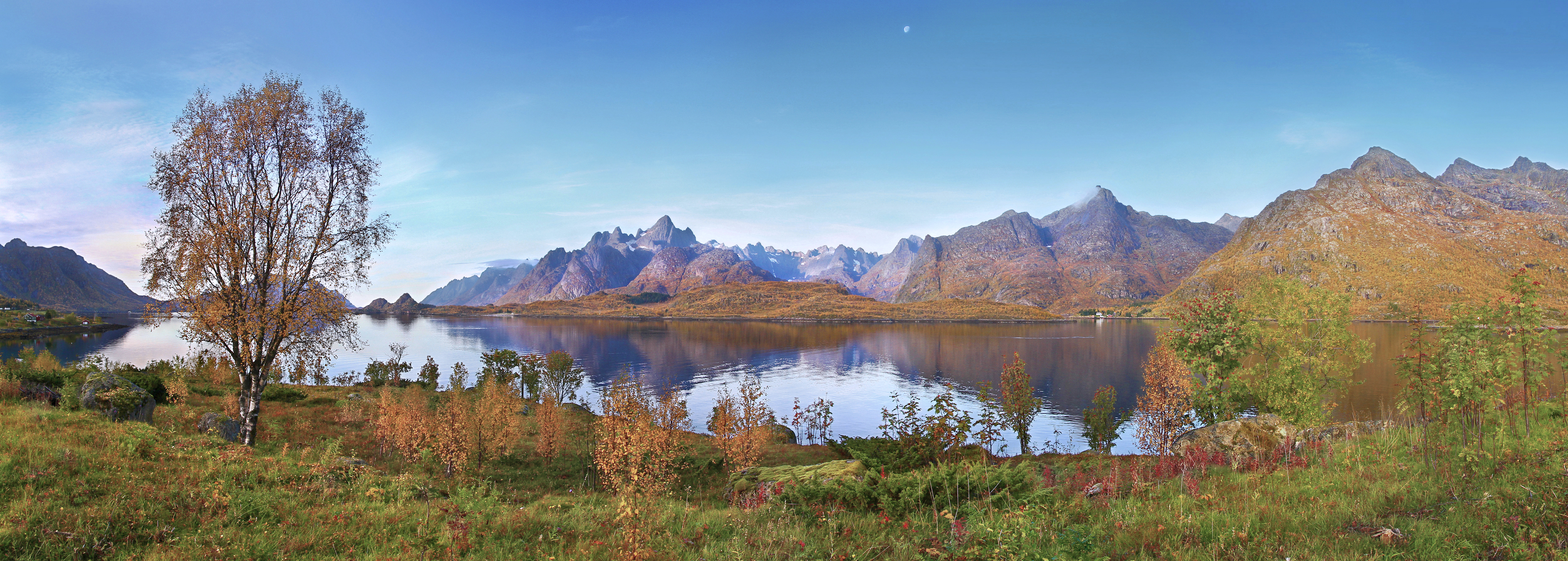 A view to Raftsundet and mountains such as Trolltindan from Hinnøya (Lofoten) in September 2010.